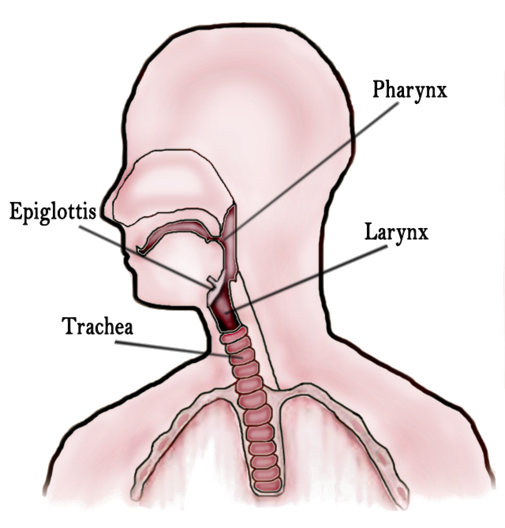 Diagram of the Human Throat for the Throat article.